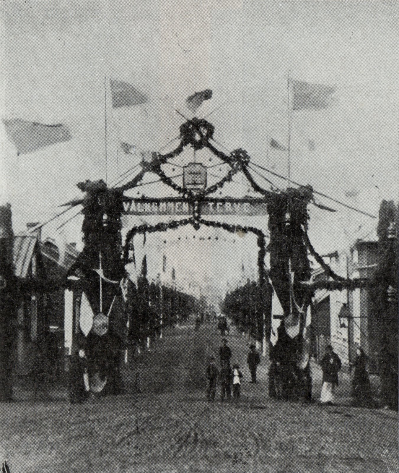 Oulu railway inauguration celebration in 1886. Welcoming gate in front of the railway station at Asemakatu street.